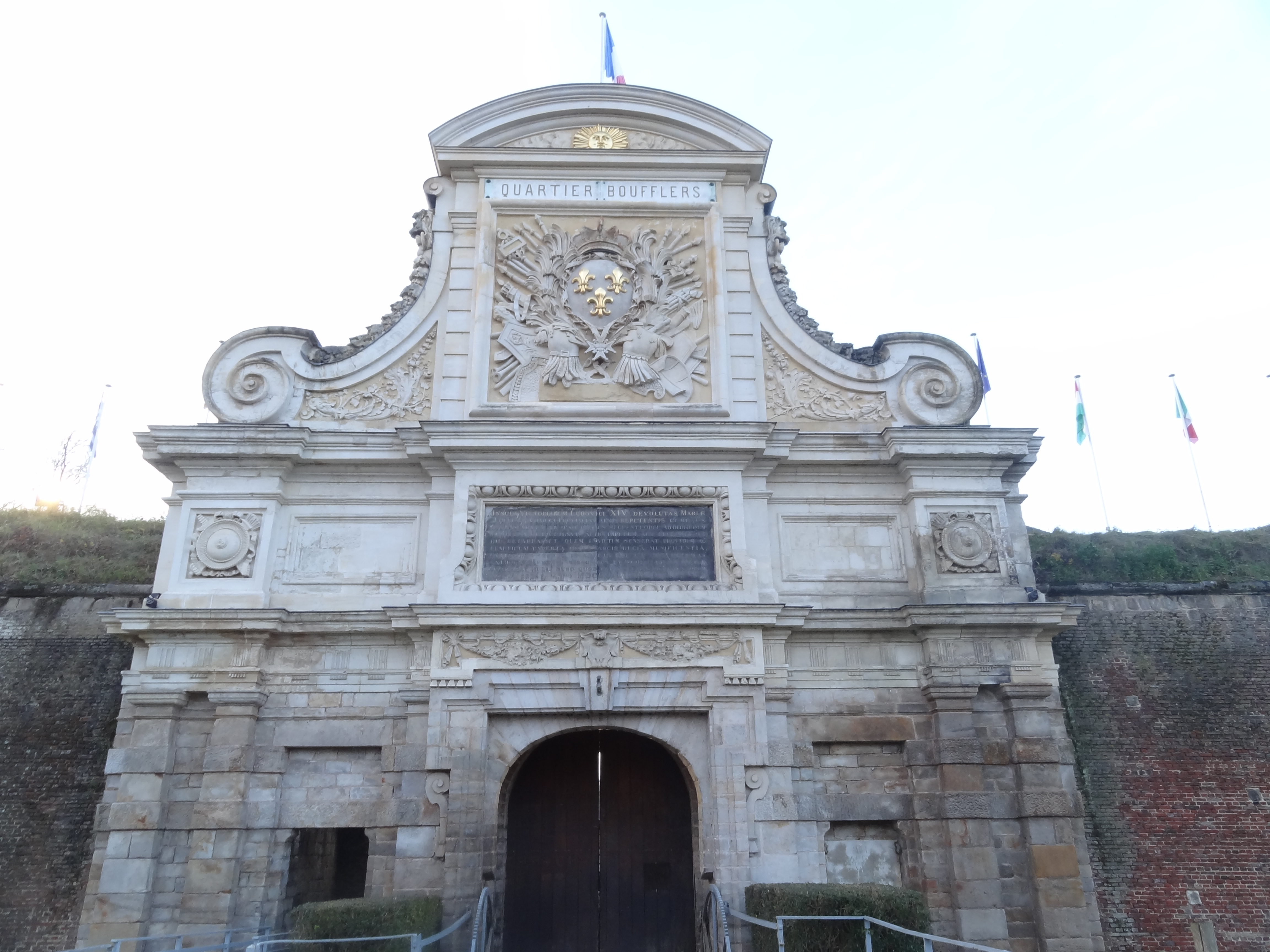 Boufflers military quarter, Citadel of Lille (Lille, France)